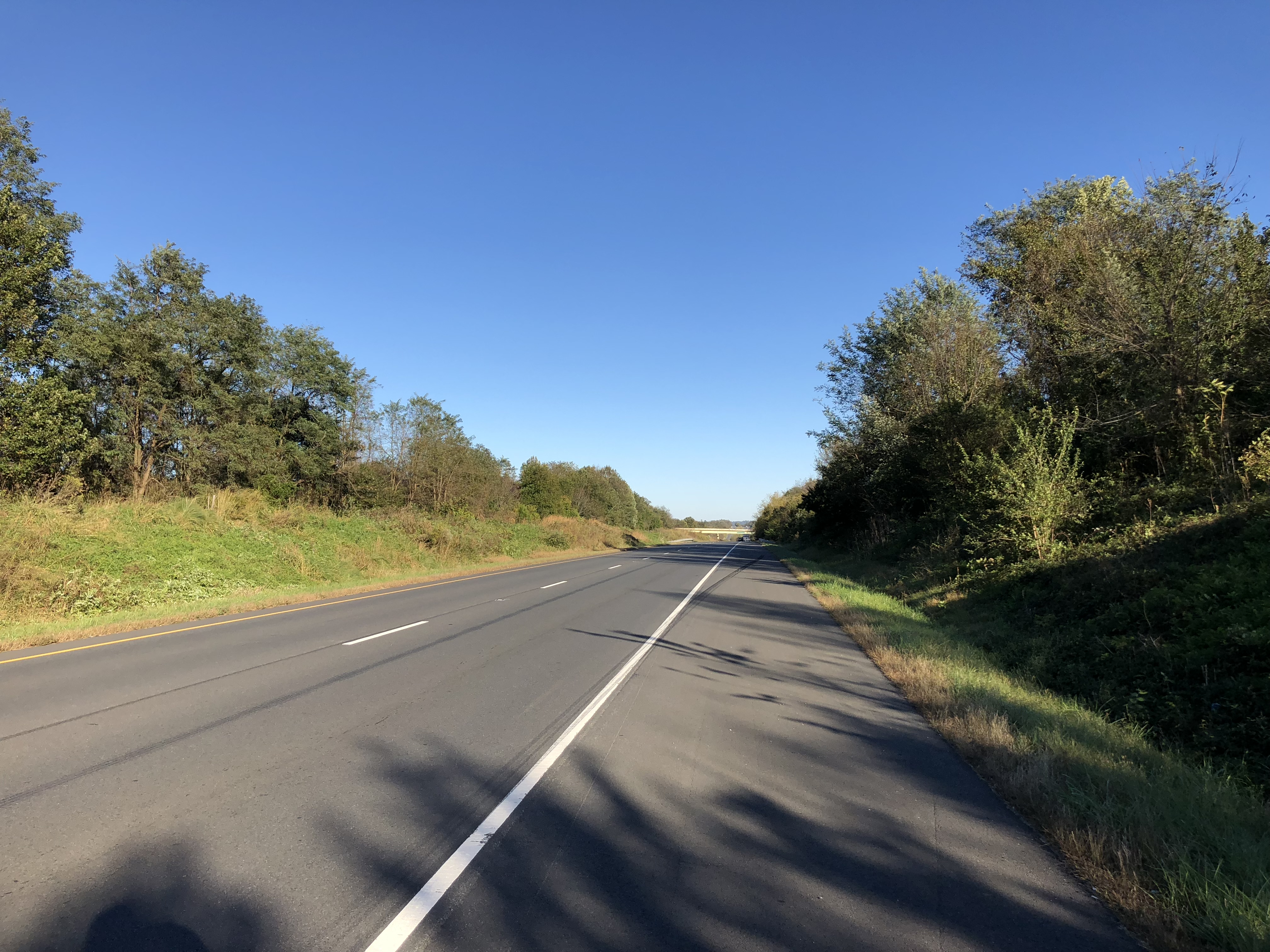 View east along Virginia State Route 7 (Harry Byrd Highway) between Hillsboro Road/21st Street (Virginia State Route 690) and Purcellville Road/Hatcher Avenue (Virginia State Route 611) in Purcellville, Loudoun County, Virginia